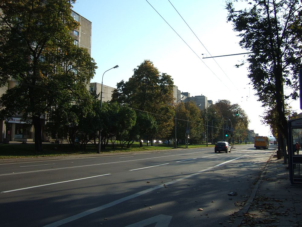 Savanorių Avenue